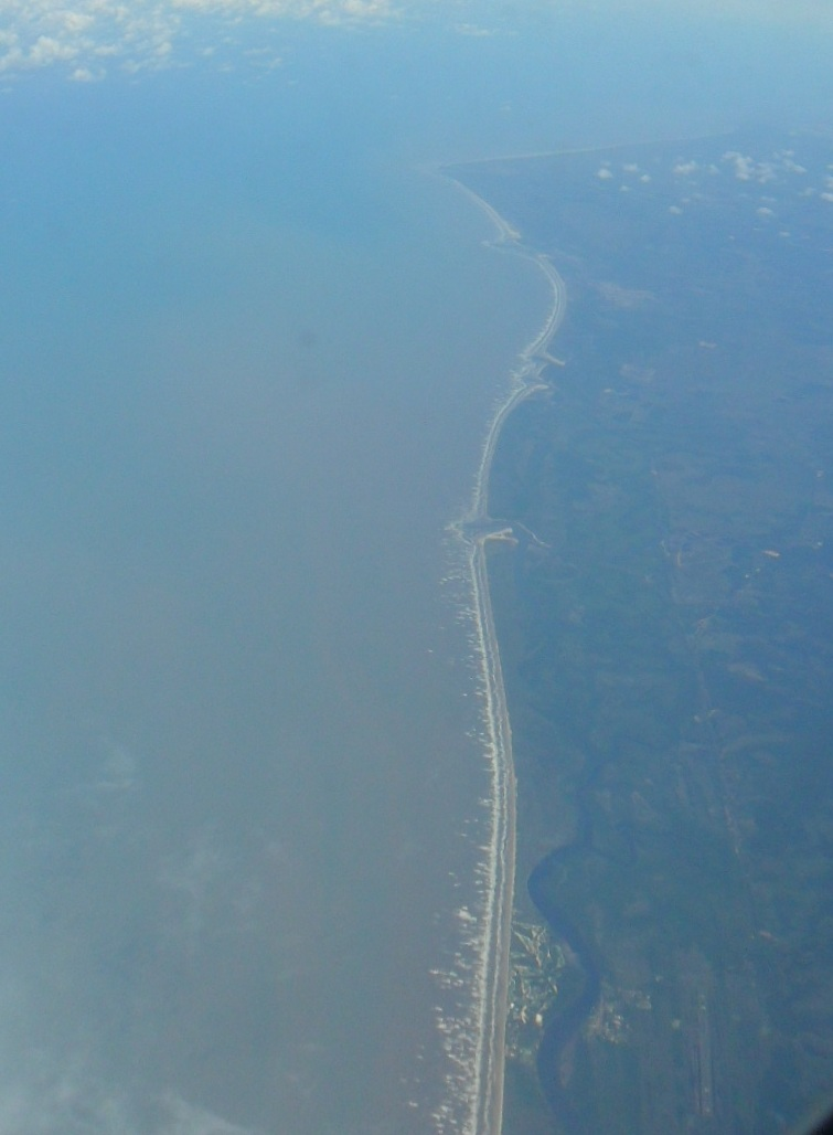 Corumbaú Cape in Prado, Bahia, Brazil